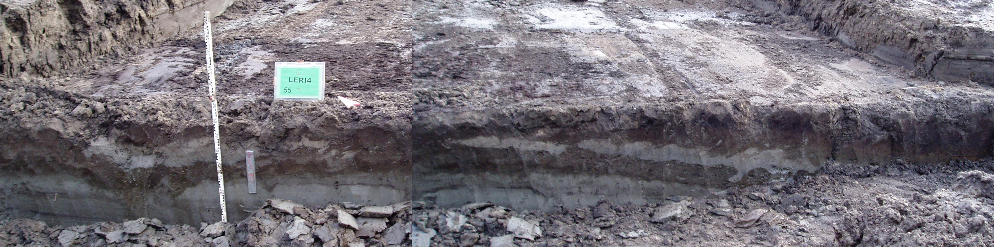 Indications for a towing path beside the canal of Corbulo, Leidschendam-Voorburg